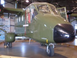 GAF Nomad (Photographer: Mark Clayton)